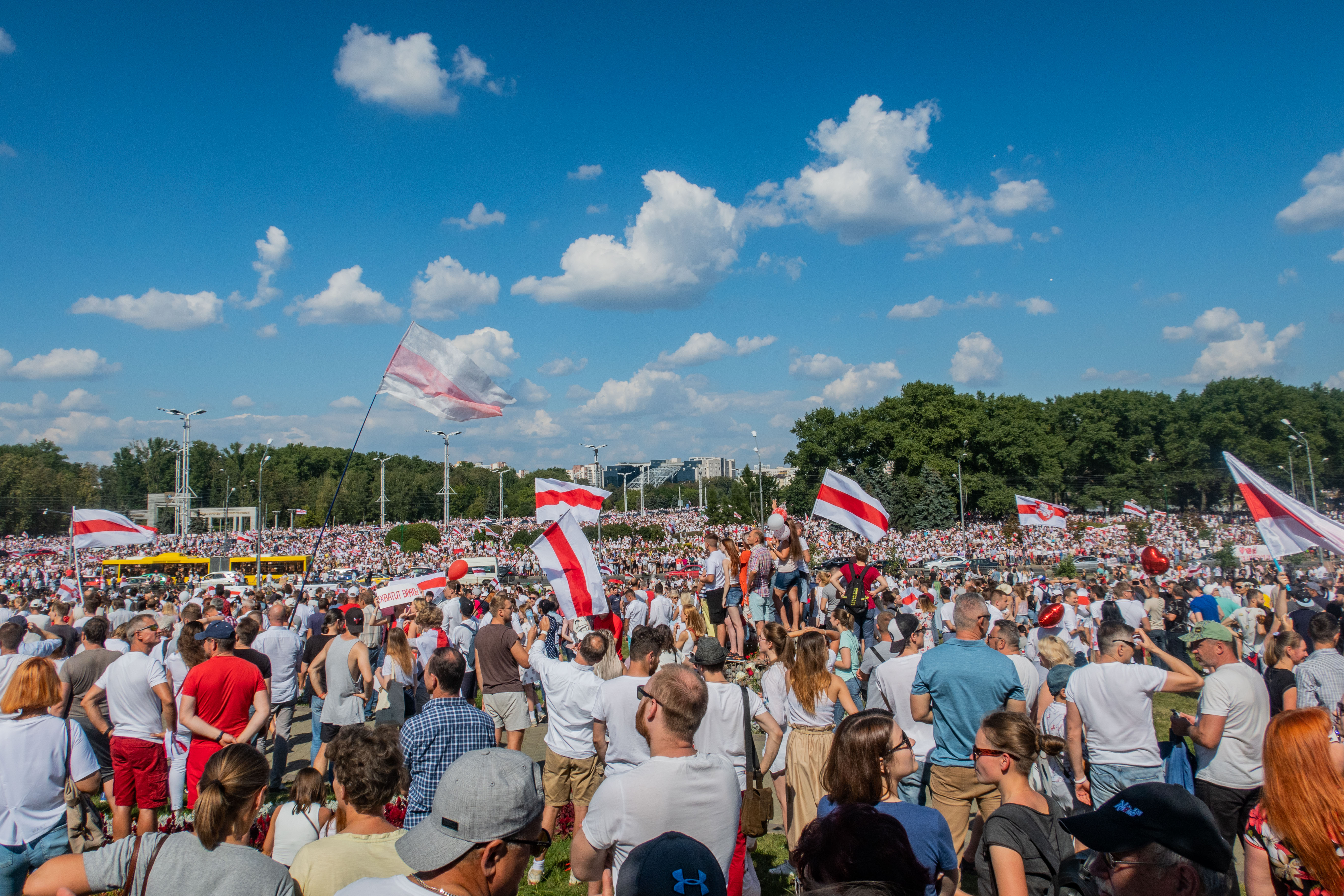 Protest rally against Lukashenko, 16 August. Minsk, Belarus